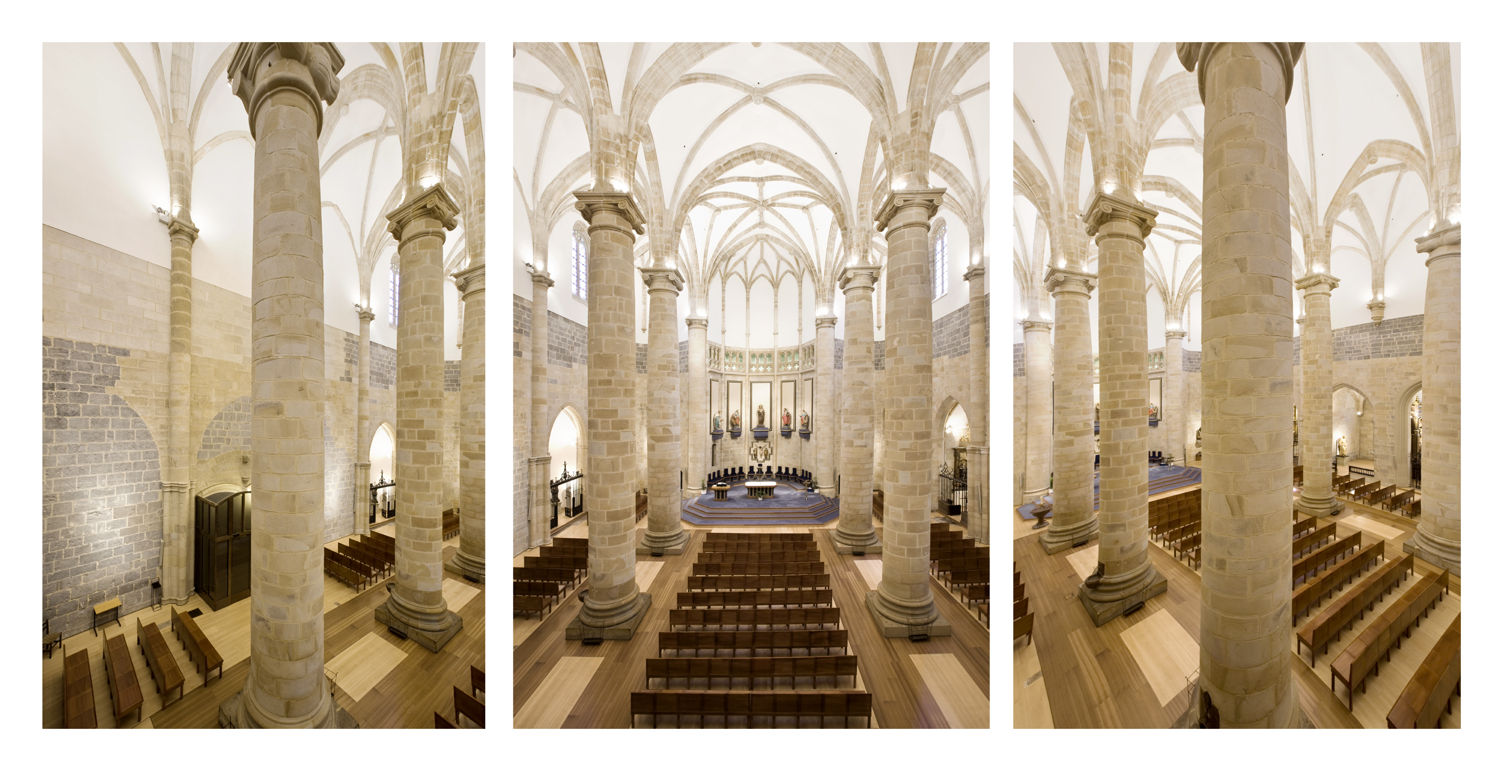 Andra Mari Church in Gernika